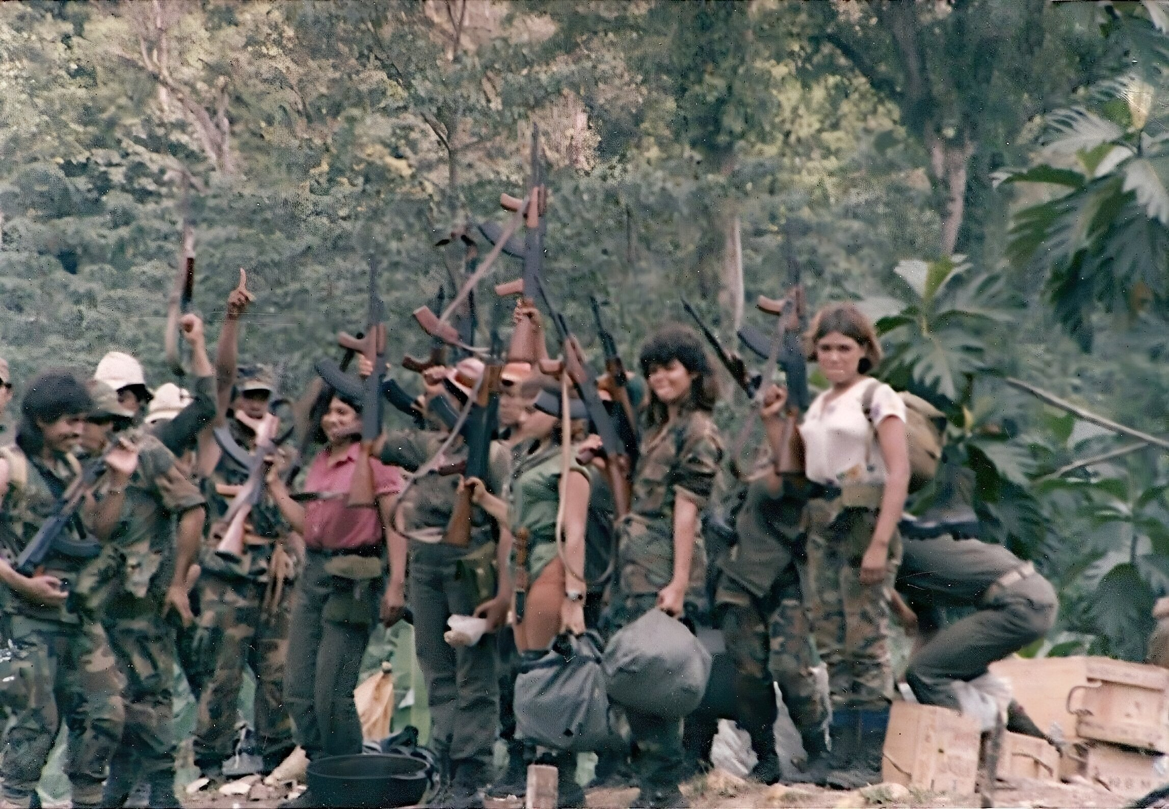 FDN & ARDE Frente Sur Commandas, Nueva Guinea zone of southeast Nicaragua, 1987